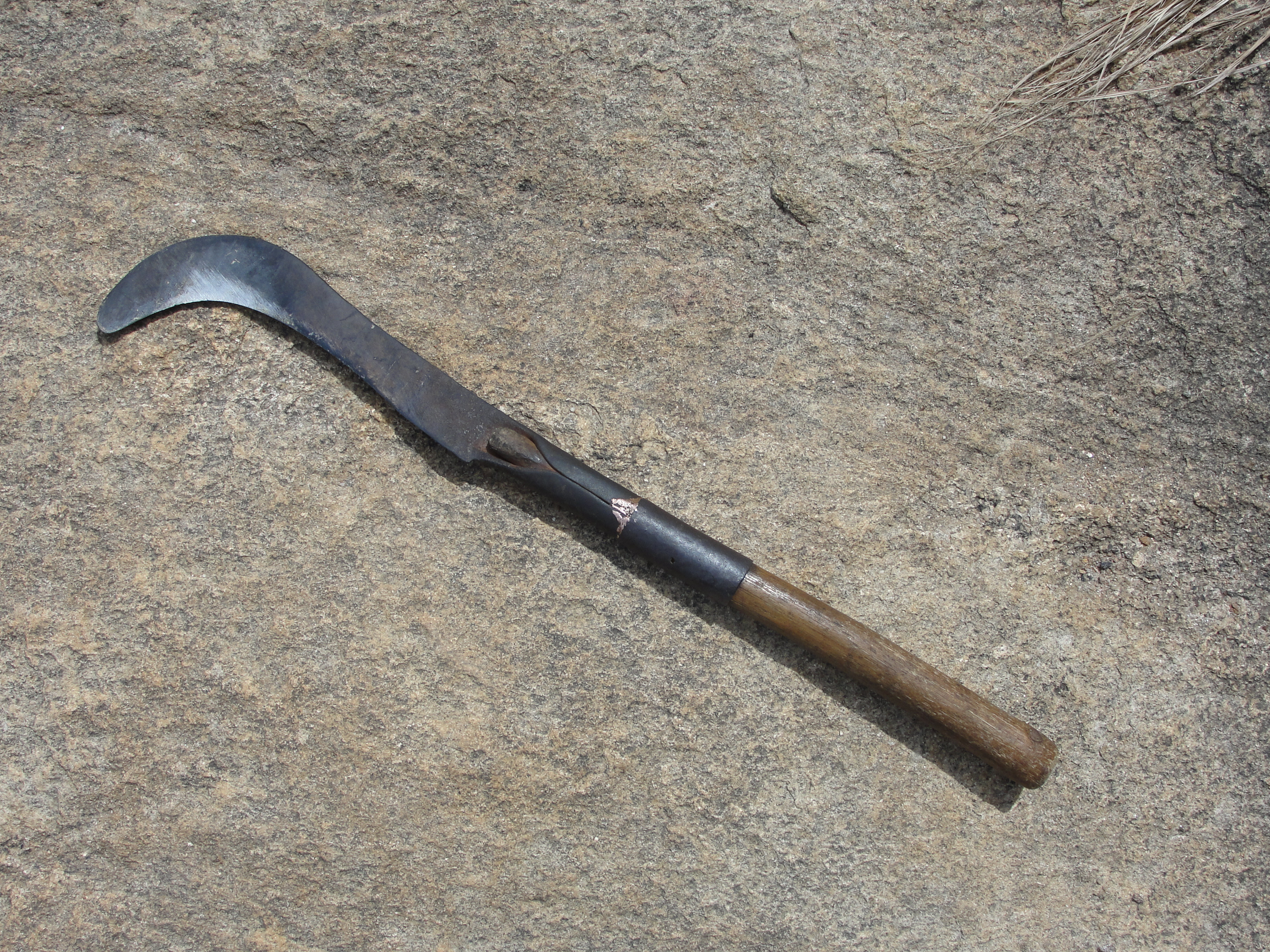 A aesthetic billhook